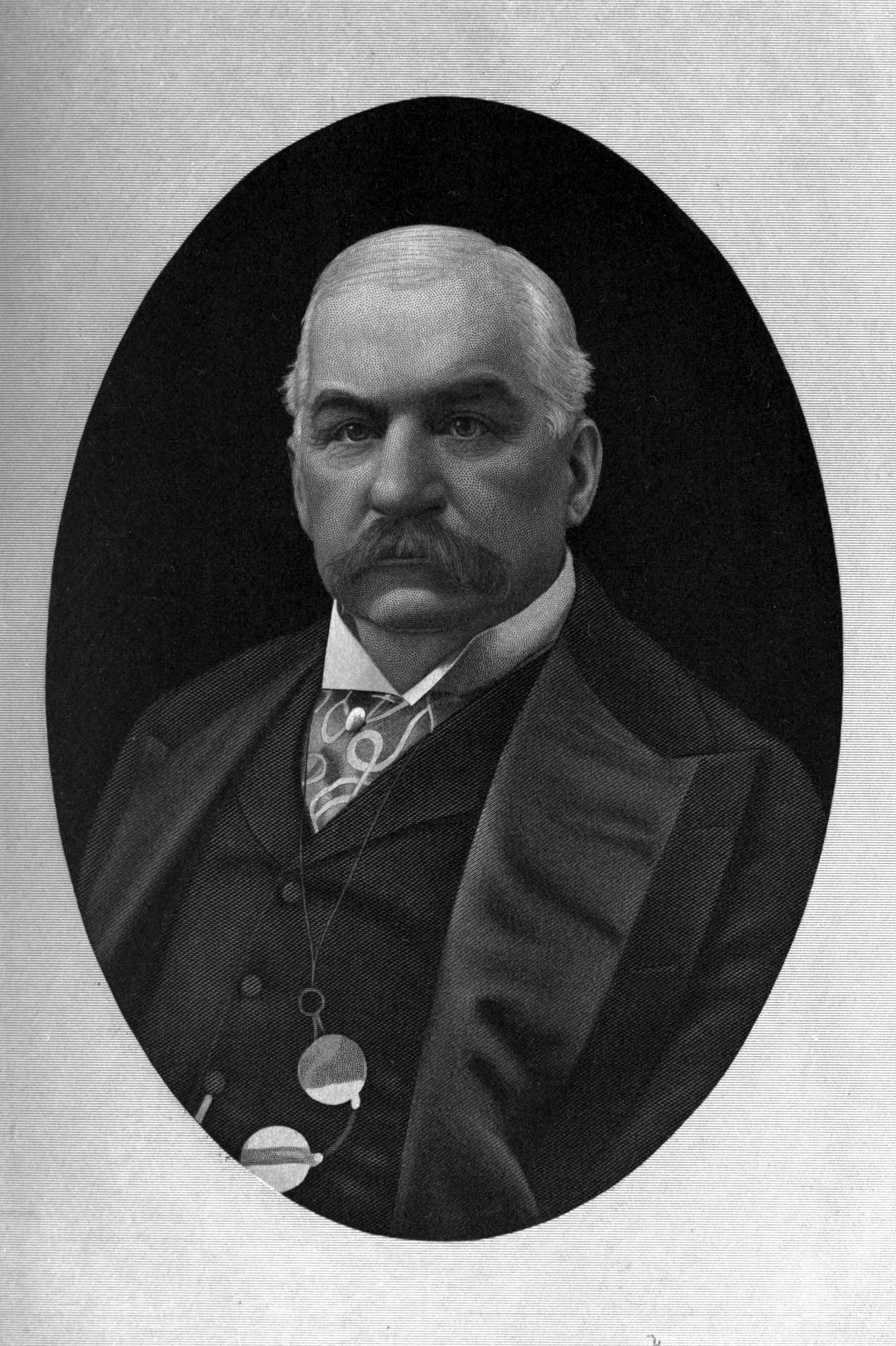 Portrait engraving of United States financier John Pierpont Morgan